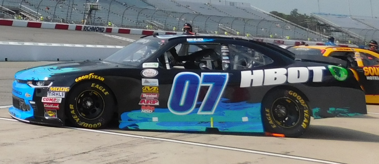 Ray Black Jr.'s No. 07 Chevrolet at Richmond International Raceway in 2017